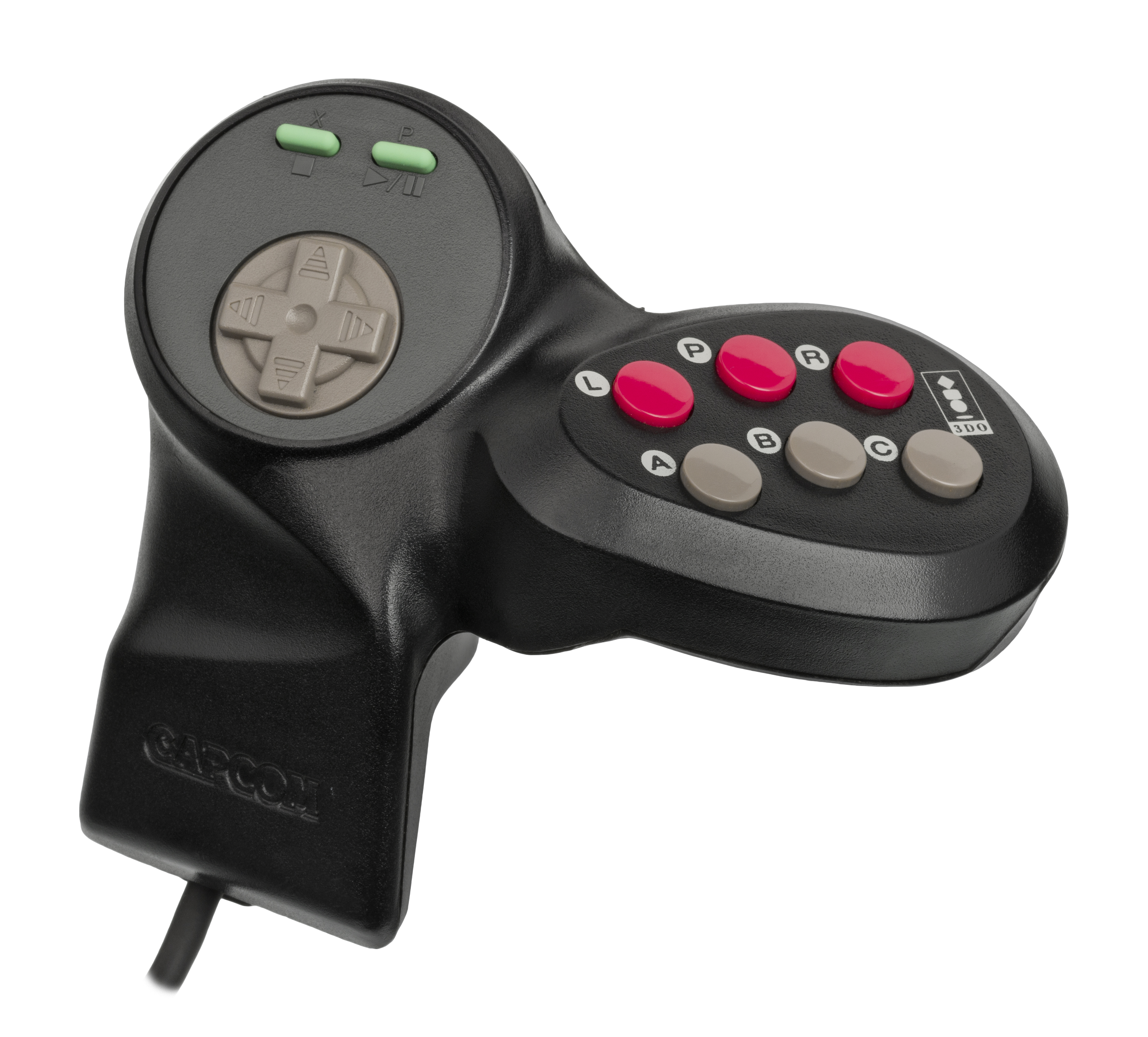 A uniquely-designed fighting game controller for the 3DO video game console, produced by Capcom primarily for their Super Street Fighter 2 video game on the system. A similar controller was also produced for the Super NES.